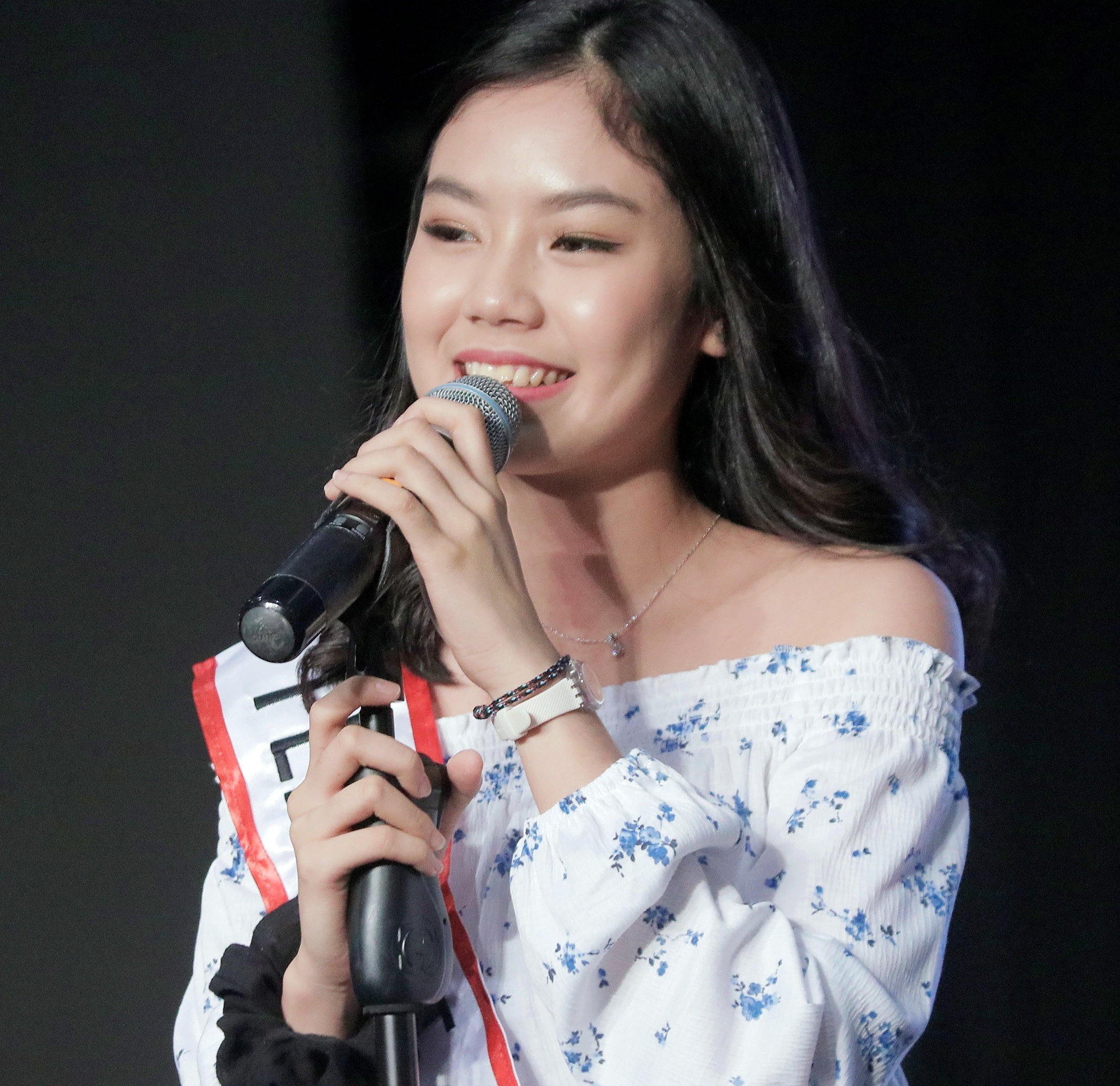 Gabryela Marcelina's (Aby) giving her Senbatsu Sousenkyo speech at JKT48 Joy Kick Tears Handshake Festival Surabaya.